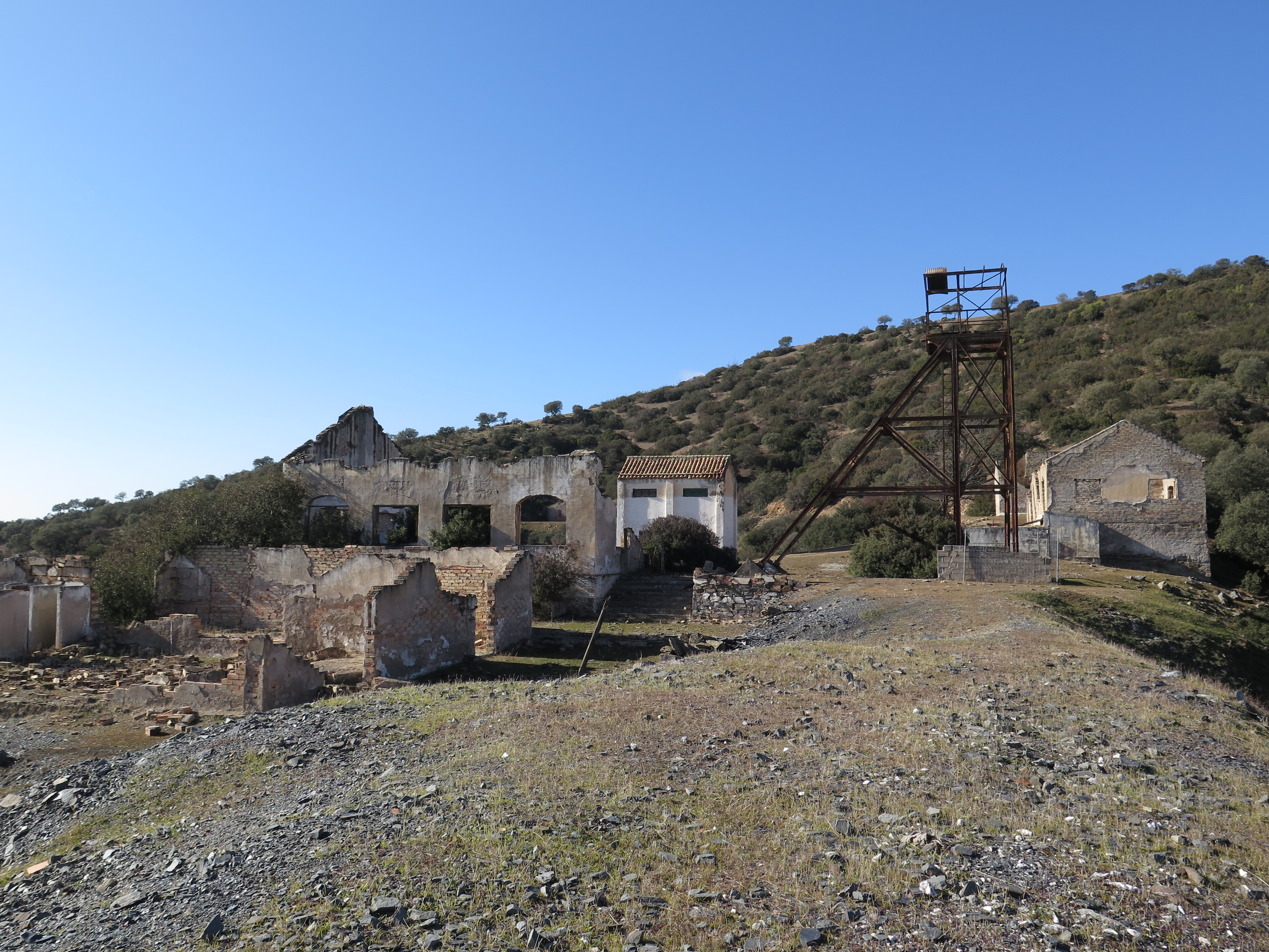 Abandoned mine at El Centenillo, Jaén.